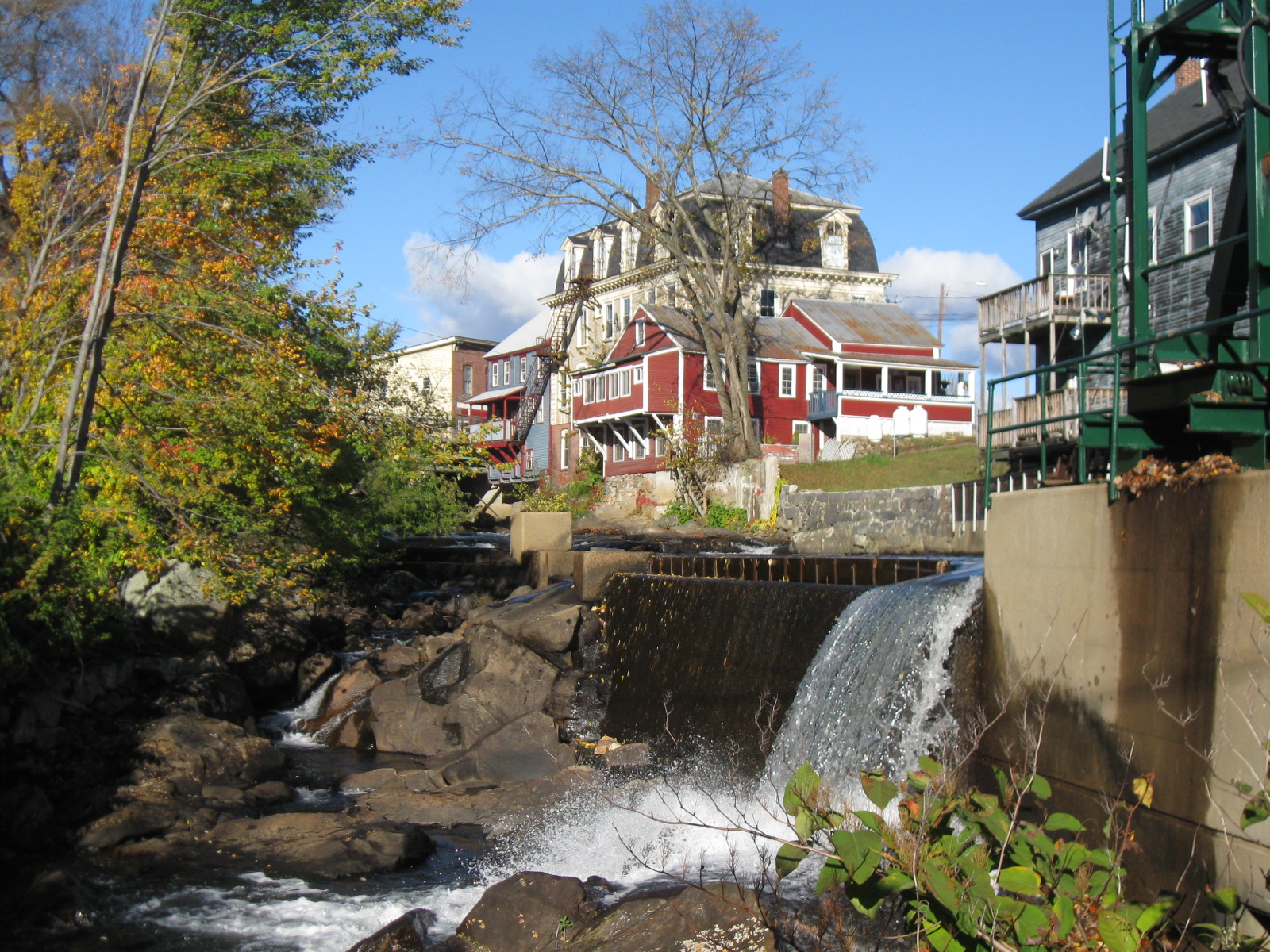 The Newfound River near the town center of Bristol